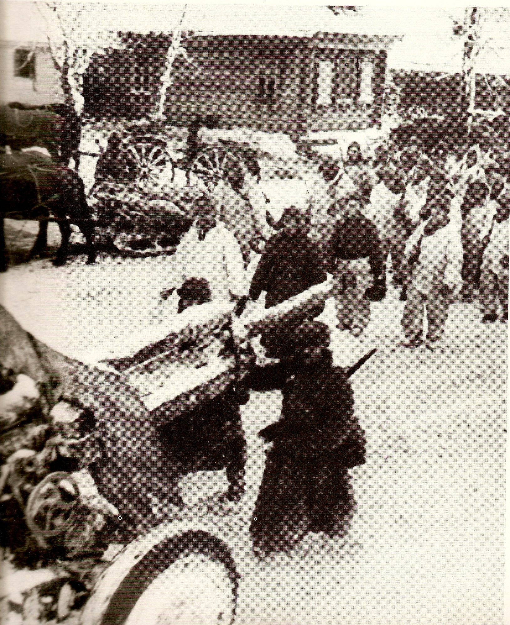 Soviet troops in the winter campaign 1942-1943